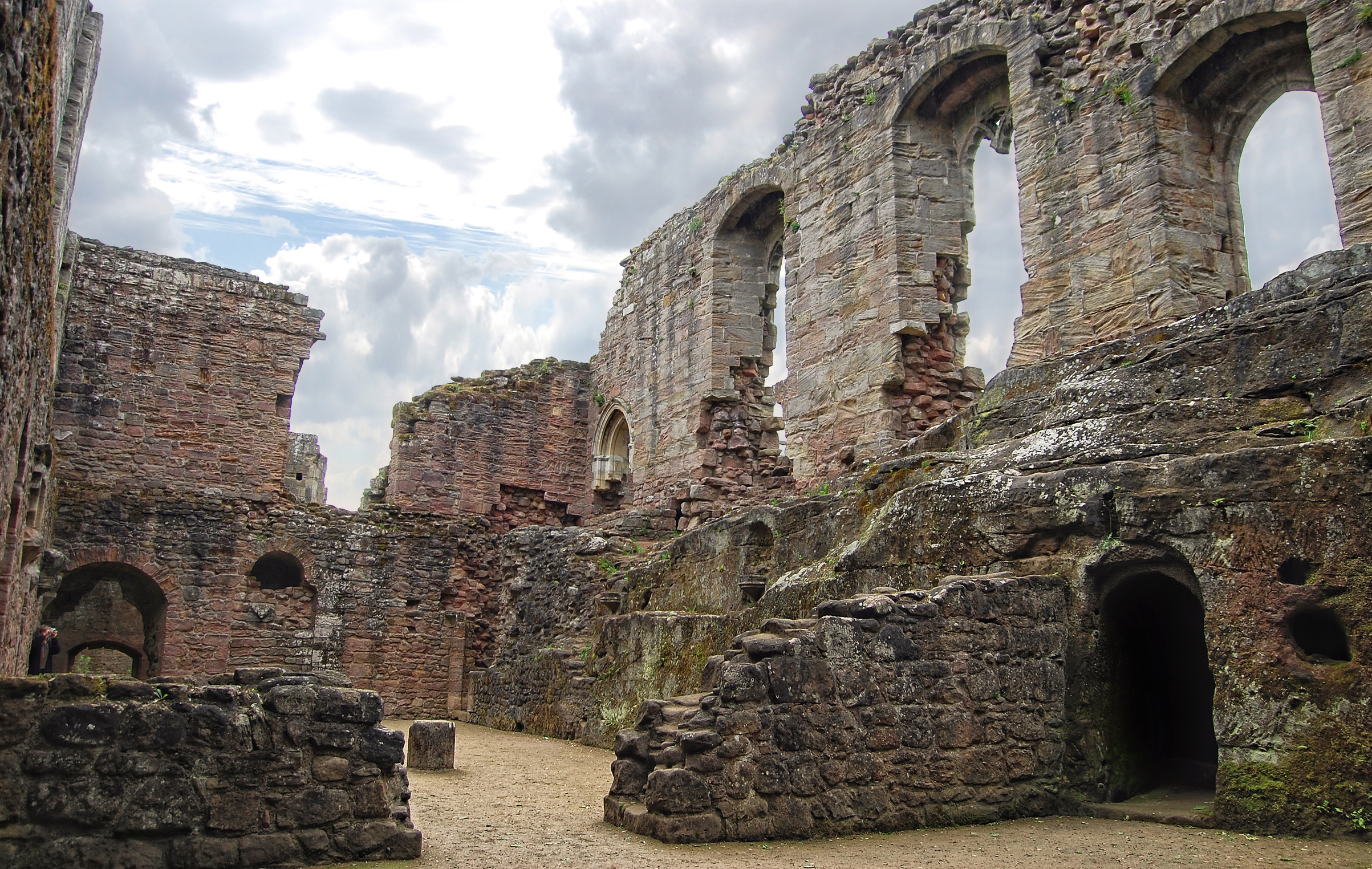 Spofforth Castle, situated midway between Harrogate and Wetherby, was a fortified structure built partially into the bedrock of the land which supports it. The ground had been the home of the de Percy family (who also owned Plumpton Rocks) since Norman times and in 1308, Henry de Percy obtained a licence to fortify the building. The family were on the losing side of the Battle of Towton in 1461 and afterwards the castle was partly destroyed. It was somewhat rebuilt in the sixteenth century but now stands as ruins. This shot was taken in the undercroft of the building; the oldest part of the remaining structure. It would have had a vaulted ceiling to support the hall that lay on the floor above. Notice the doorway at the bottom-right carved into the local bedrock - it used to be a secret passageway which emerged somewhere in the nearby village.